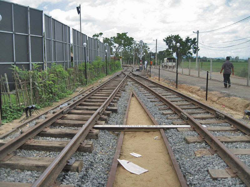 An exhibit of narrow gauge railway line which existed in Sri Lanka.